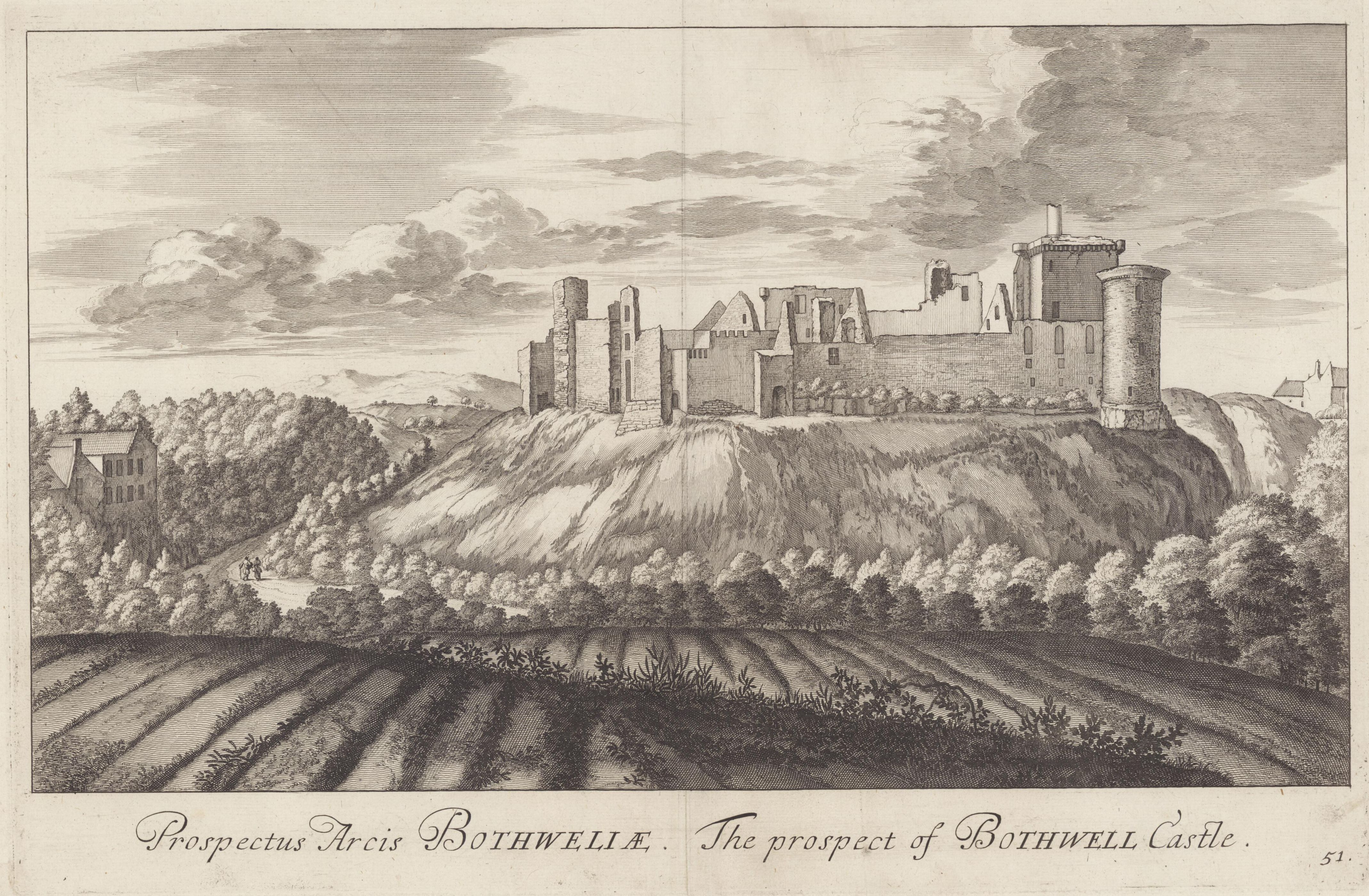 "The Prospect of Bothwell Castle", an 18th century view of Bothwell Castle, Scotland, from the south. Digital image from